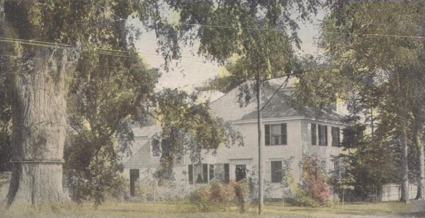 Elmfield, Hampton Falls, New Hampshire. It was built in 1787 by Capt. Joseph Wells. His great-granddaughter, Sarah Abbie Gove, inherited the property, at which she held Quaker meetings. A regular summer guest was poet John Greenleaf Whittier, who died here on September 7, 1892. The house was dismantled in 1996 and reconstructed at Greenwich, Connecticut.